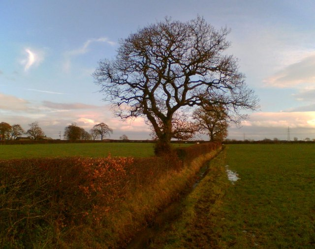 Hedge and Ditch